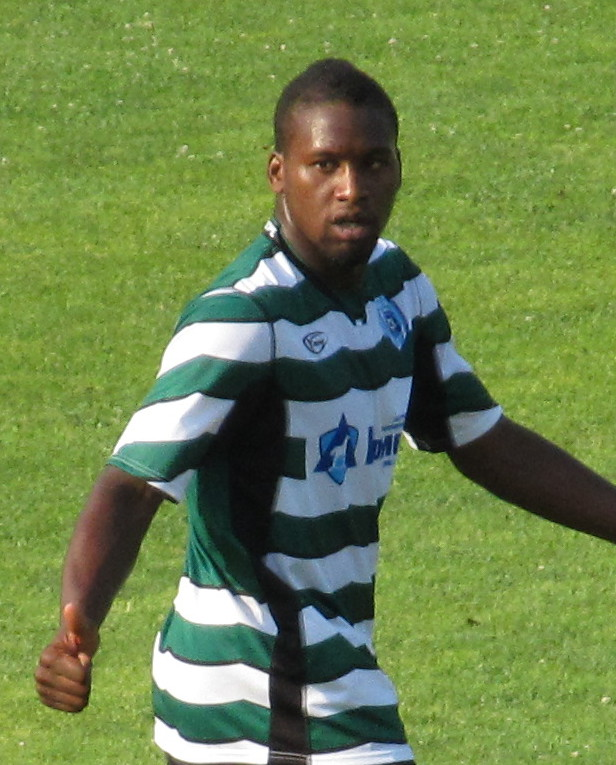 Spanish footballer Bubacar_Njie_Kambi